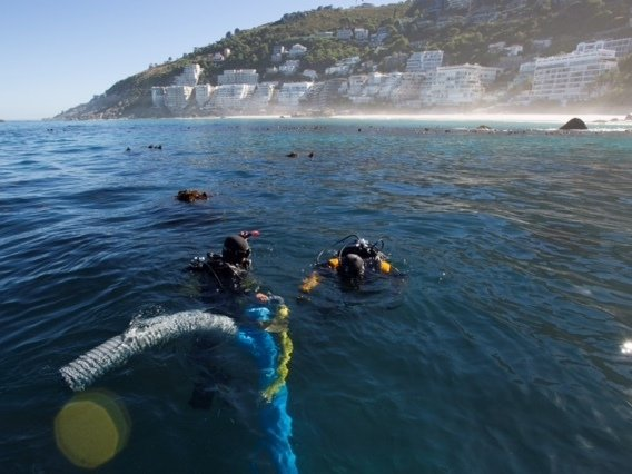 Divers near Camps Bay, Capetown, South Africa, investigating the site of the 18th century slave ship wreck of the São José Paquete Africa